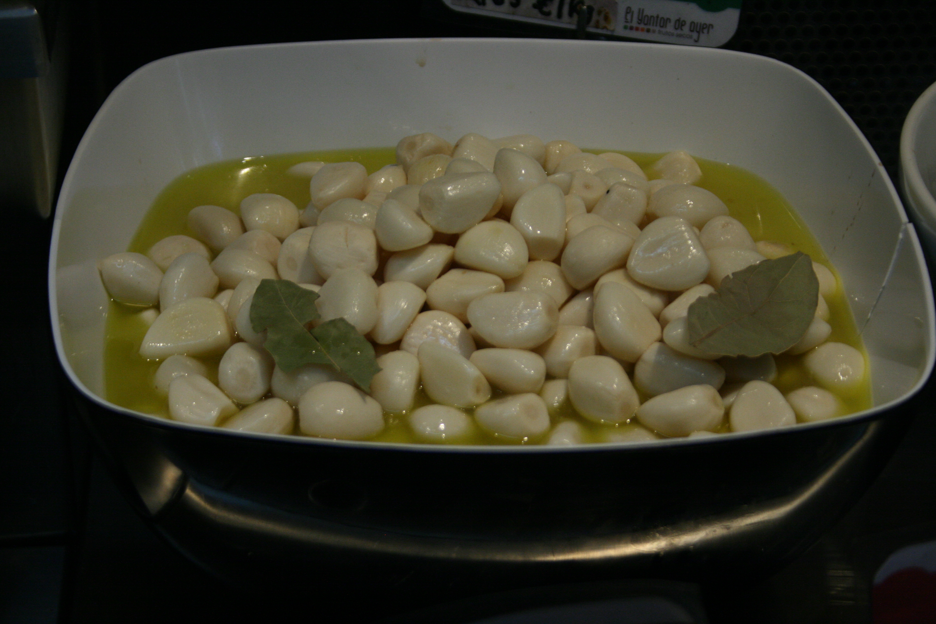 garlic pickles in olive oil